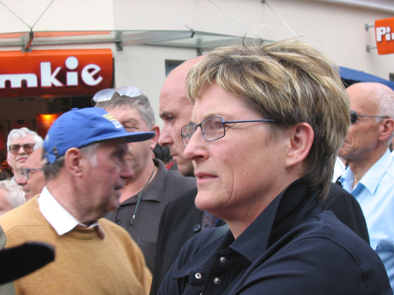 Ursula Haubner visiting the "day of the patriots" (2004-06-11)